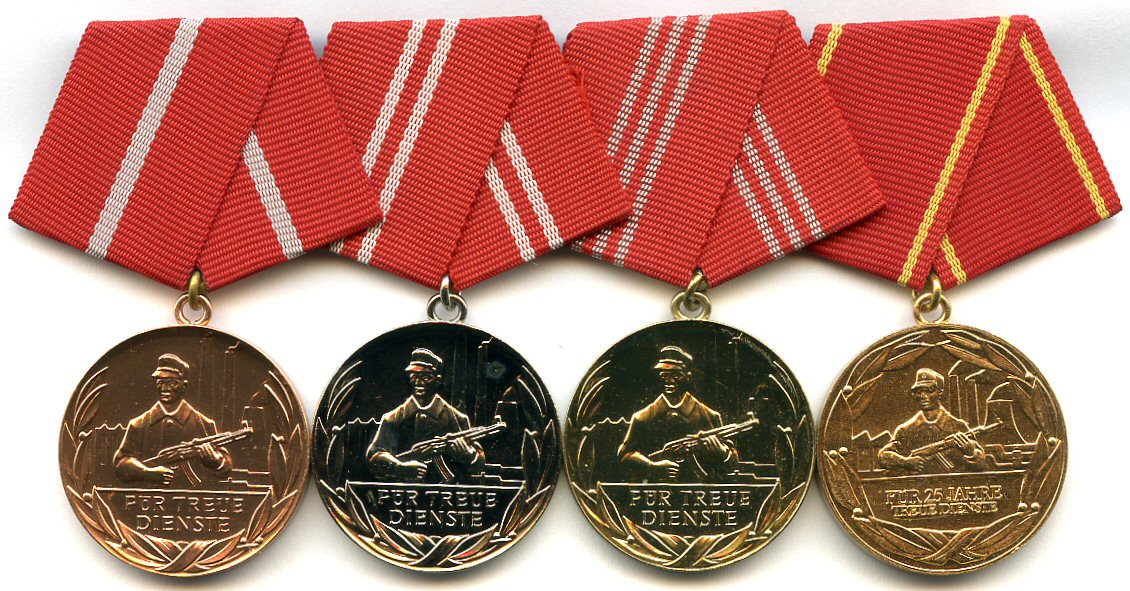 GDR Medal for Long Service in Fighting Groups of Working all 4 Classes